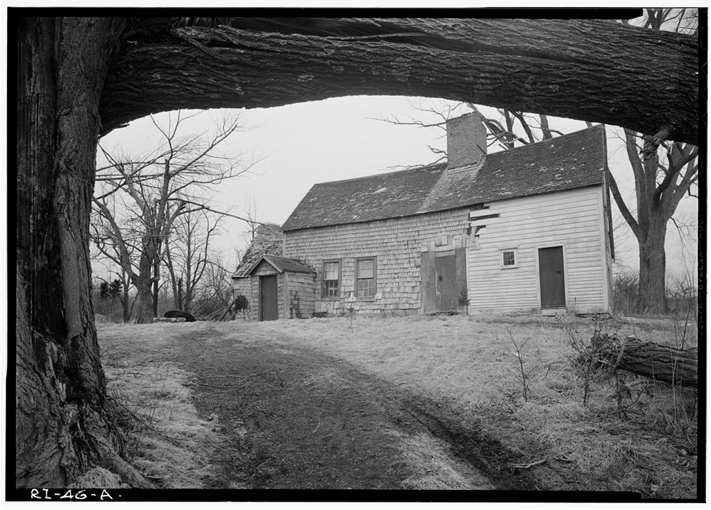 Clement Weaver-Daniel Howland House is a Stone ender timber frame house built in 1679. It is located in East Greenwich, Rhode Island, and is the second oldest home in Rhode Island.